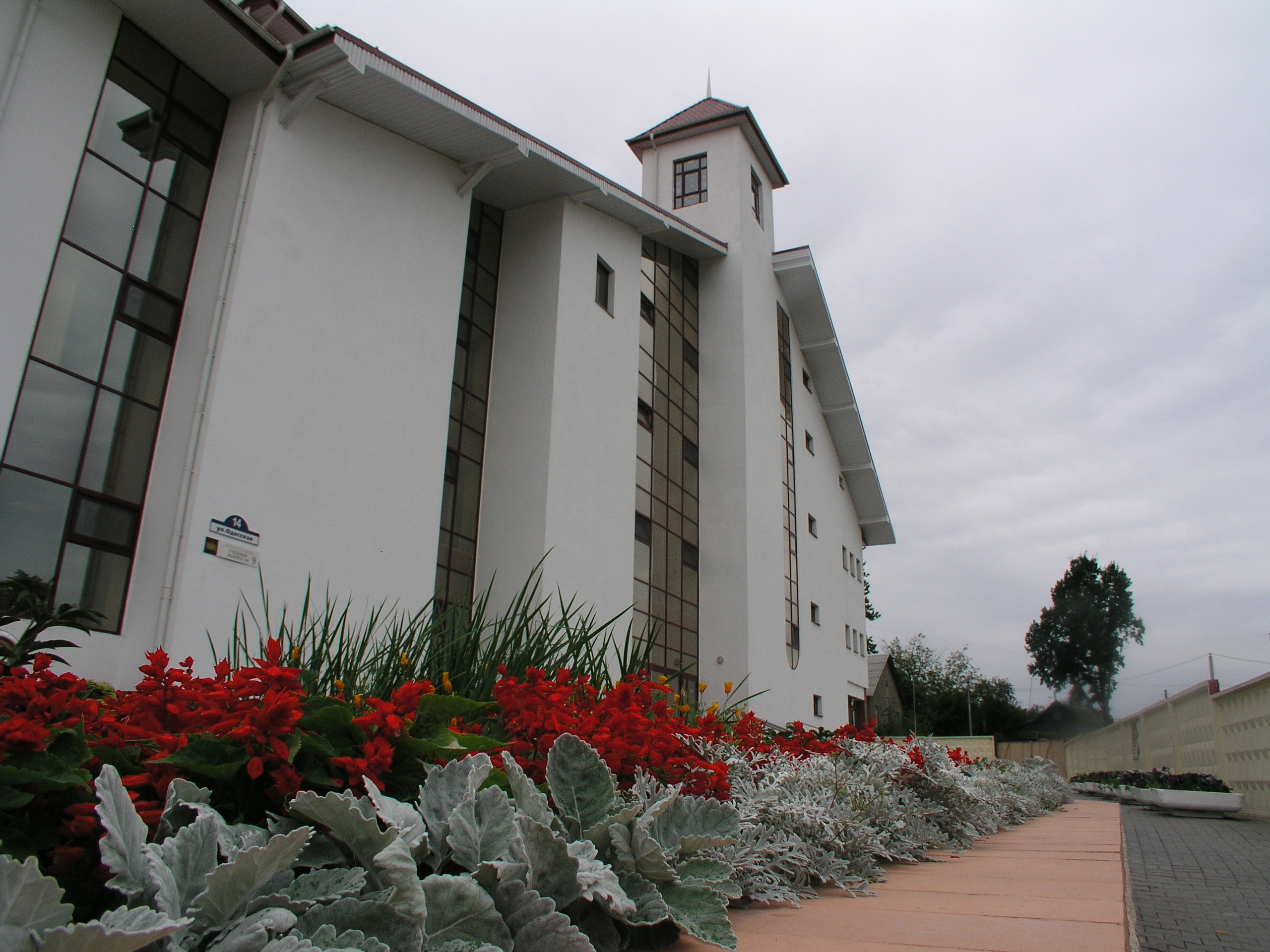 building 9, 14 Odesskaya str.